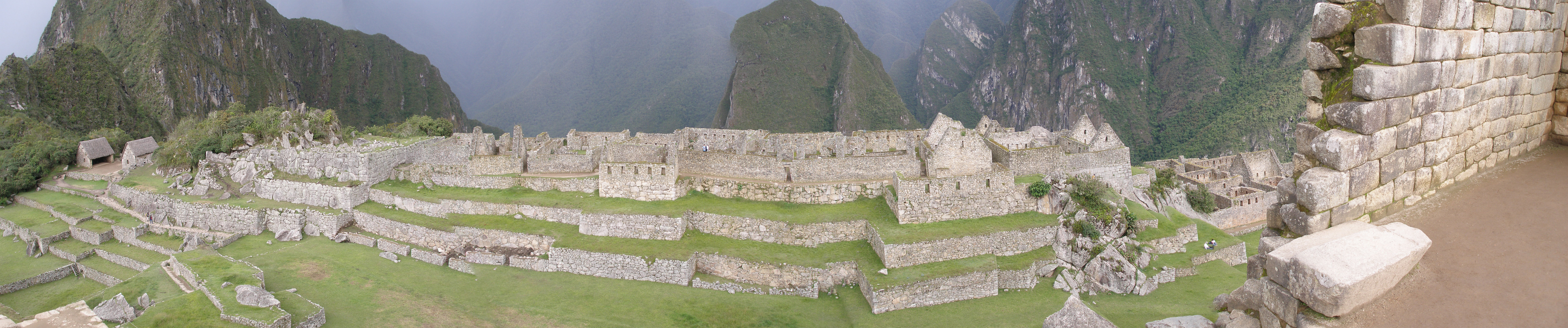 Photo of Machu Picchu (Cusco, Perú)